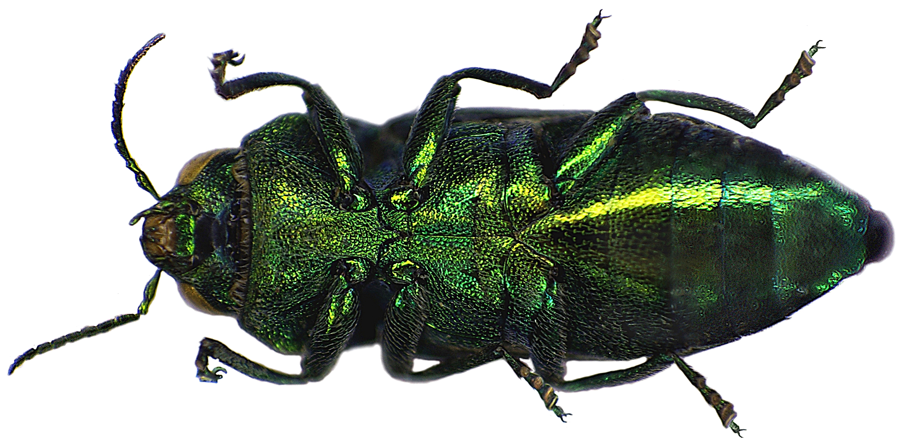 Underside of Anthaxia candens